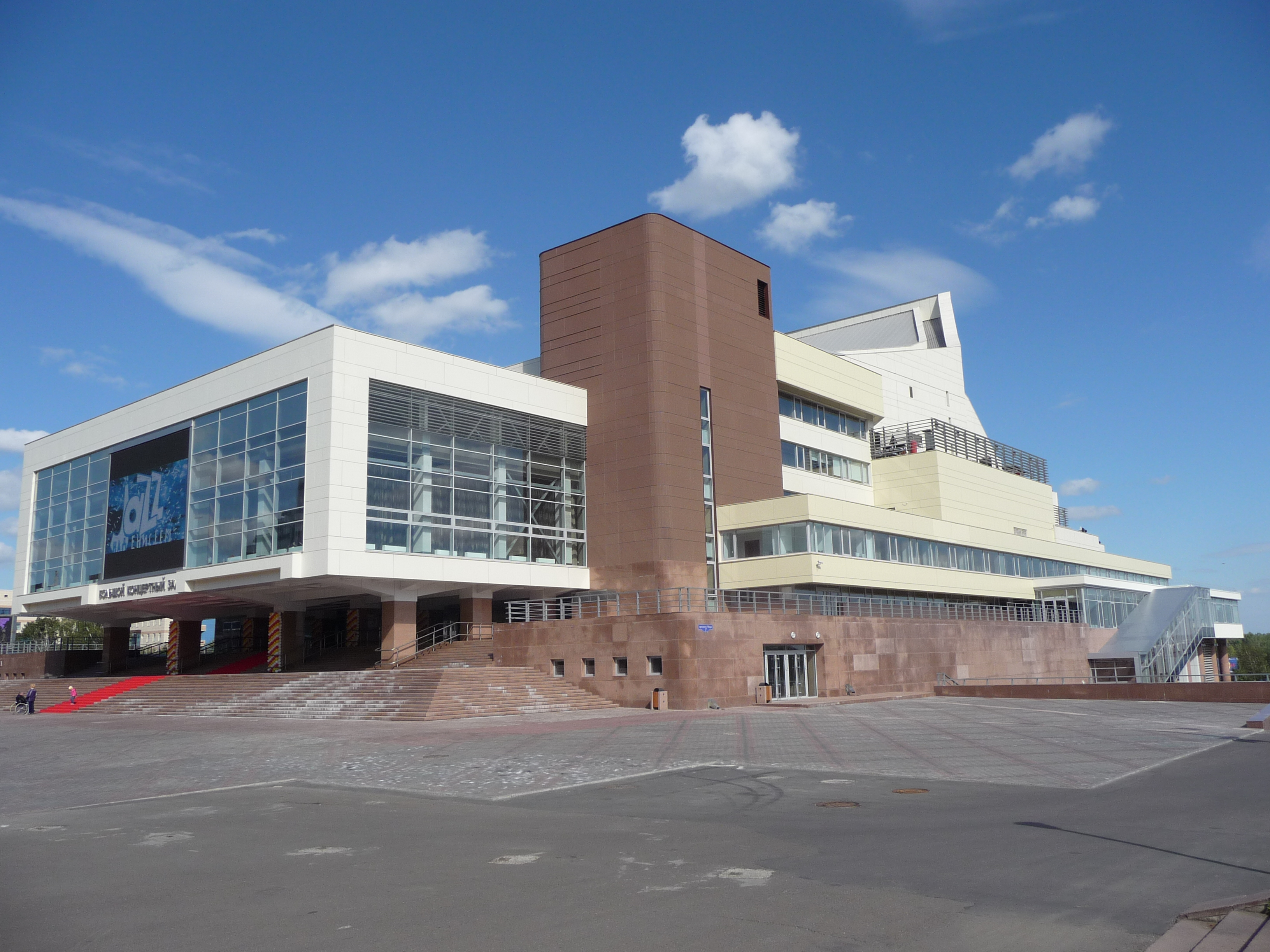 Krasnoyarsk Regional Philharmonic, the Grand Concert Hall